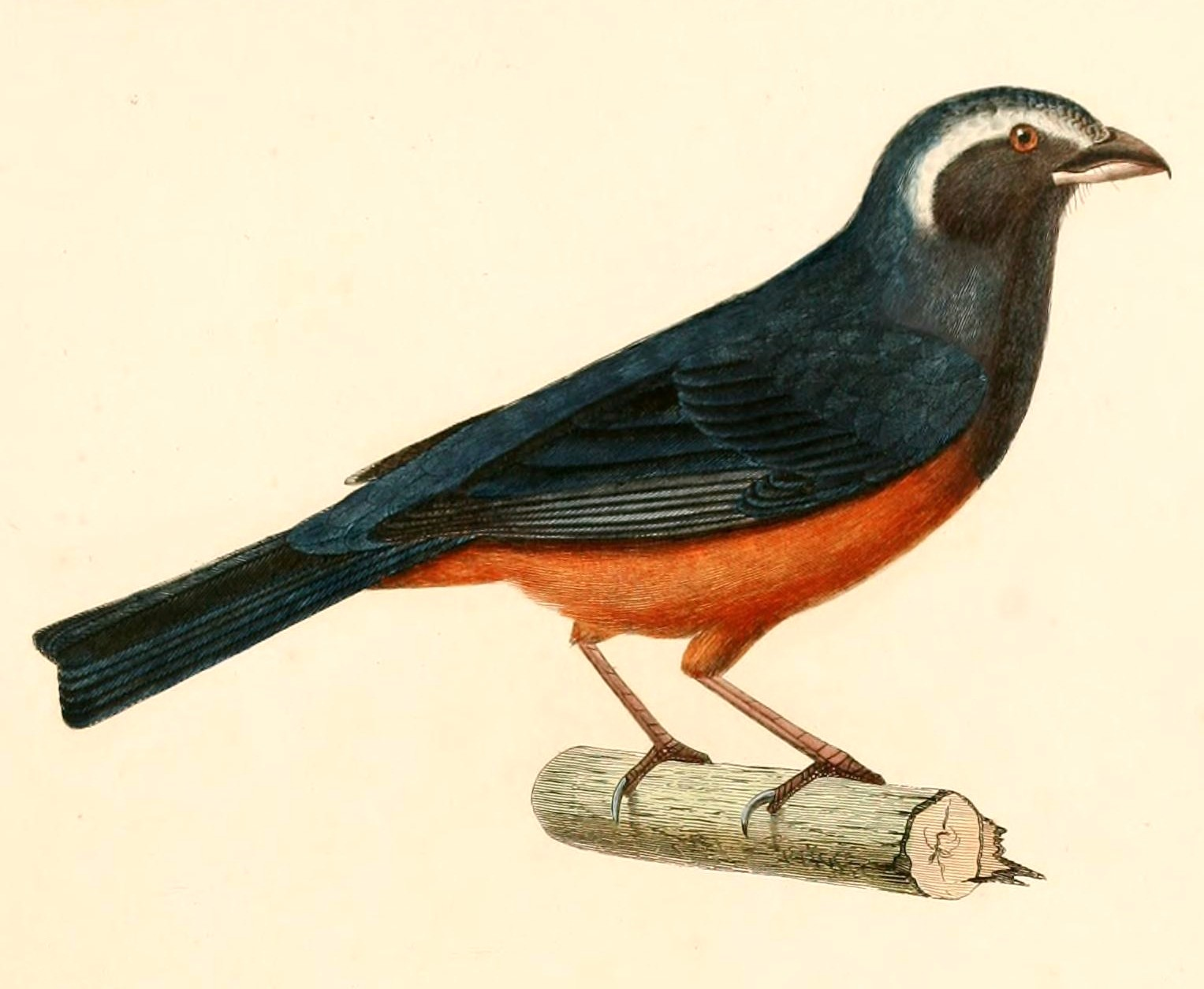 « Saltator rufiventris » = Saltator rufiventris (Rufous-bellied Saltator)